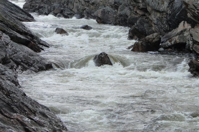 Vuoksi river, Imatra water fall